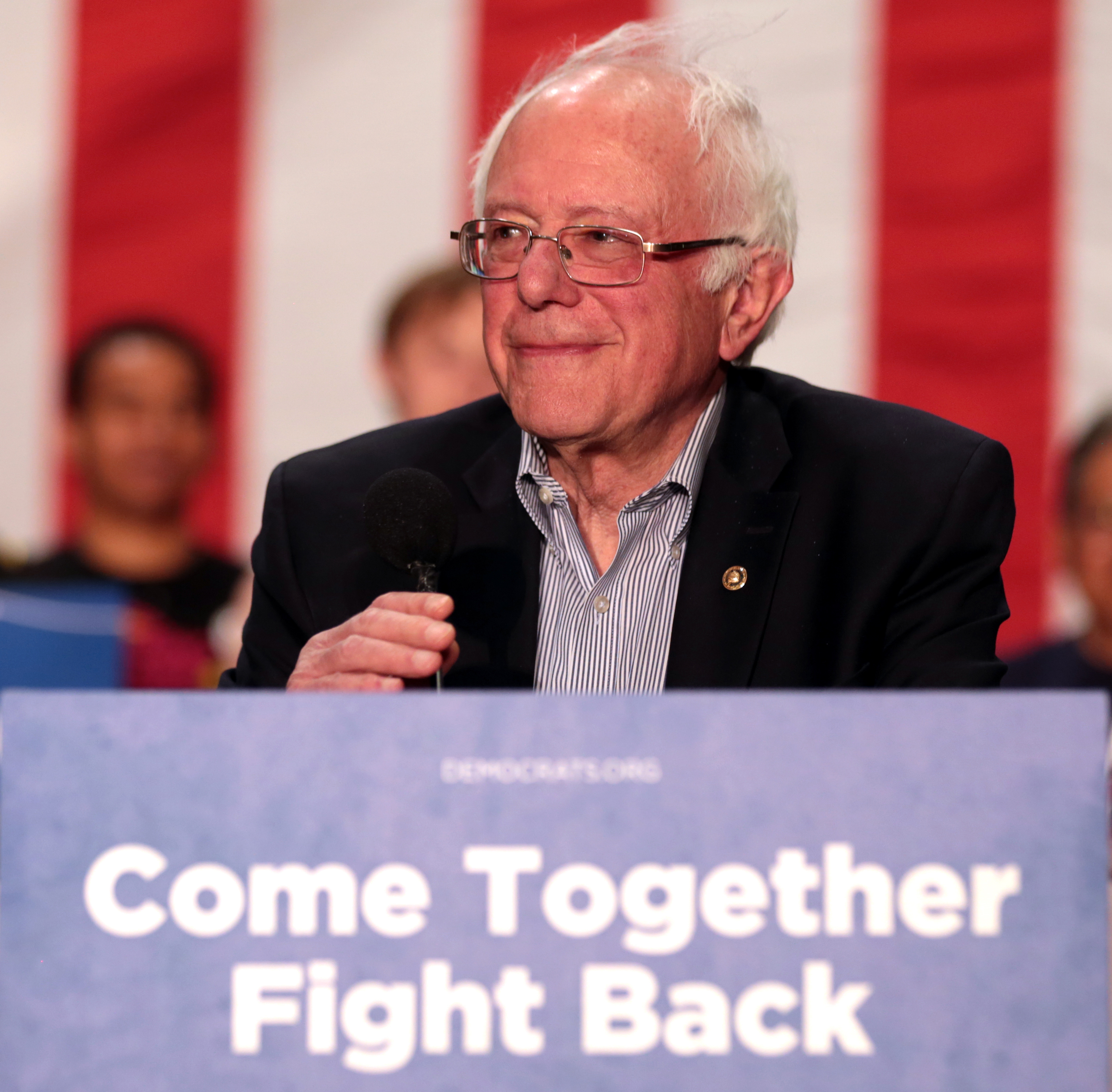 U.S. Senator Bernie Sanders speaking with supporters at a "Come Together and Fight Back" rally hosted by the Democratic National Committee at the Mesa Amphitheater in Mesa, Arizona.